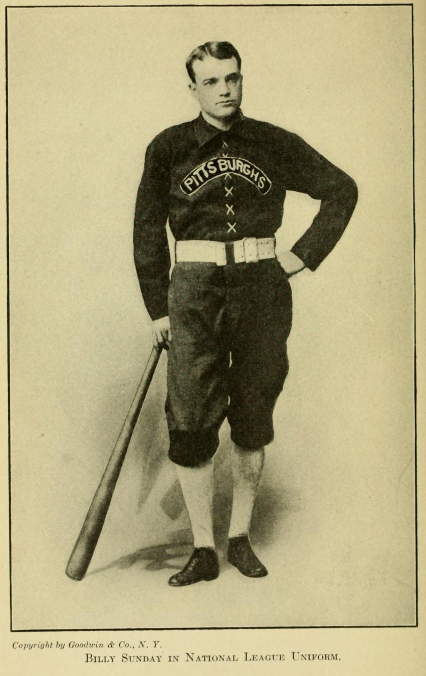 Billy Sunday in Pittsburgh National League Uniform